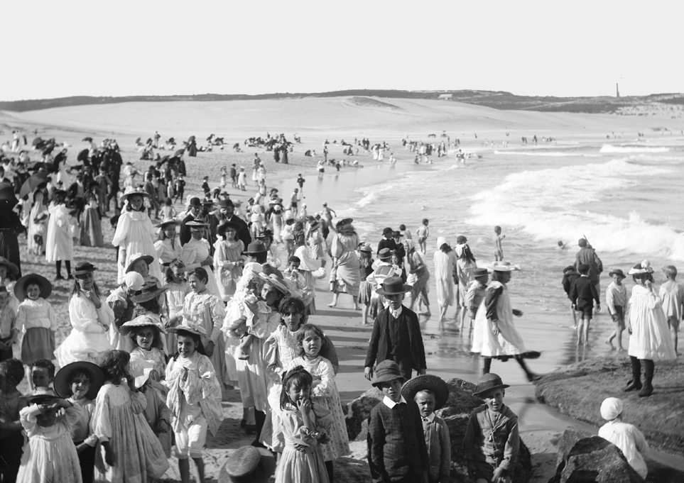 'Beaches' Pictures from The Powerhouse Museum This image is of Australian origin and is now in the public domain because its term of copyright has expired. According to the Australian Copyright Council (ACC), ACC Information Sheet G023v17 (Duration of copyright) (August 2014). Type of materialCopyright has expired if ... A Photographs or other works published anonymously, under a pseudonym or the creator is unknown:taken or published prior to 1 January 1955 B Photographs (except A):taken prior to 1 January 1955 C Artistic works (except A & B):the creator died before 1 January 1955 D Published editions1 (except A & B):first published more than 25 years ago E Commonwealth or State government owned2 photographs and engravings:taken or published more than 50 years ago and prior to 1 May 1969 1 means the typographical arrangement and layout of a published work. eg. newsprint. 2owned means where a government is the copyright owner as well as would have owned copyright but reached some other agreement with the creator. When using this template, please provide information of where the image was first published and who created it.